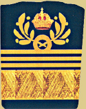 Rank insignia of the Austro-Hungarian Navy (K.u.k. Navy) 1786 to 1918, Grossadmiral/ Grand admiral